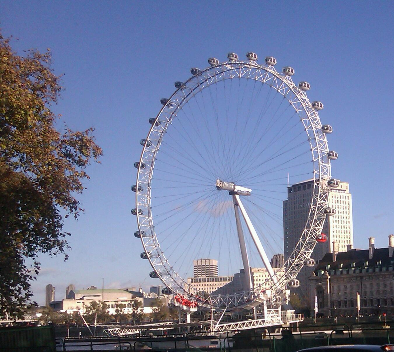 London Eye, photo taken since Victoria Embankment.